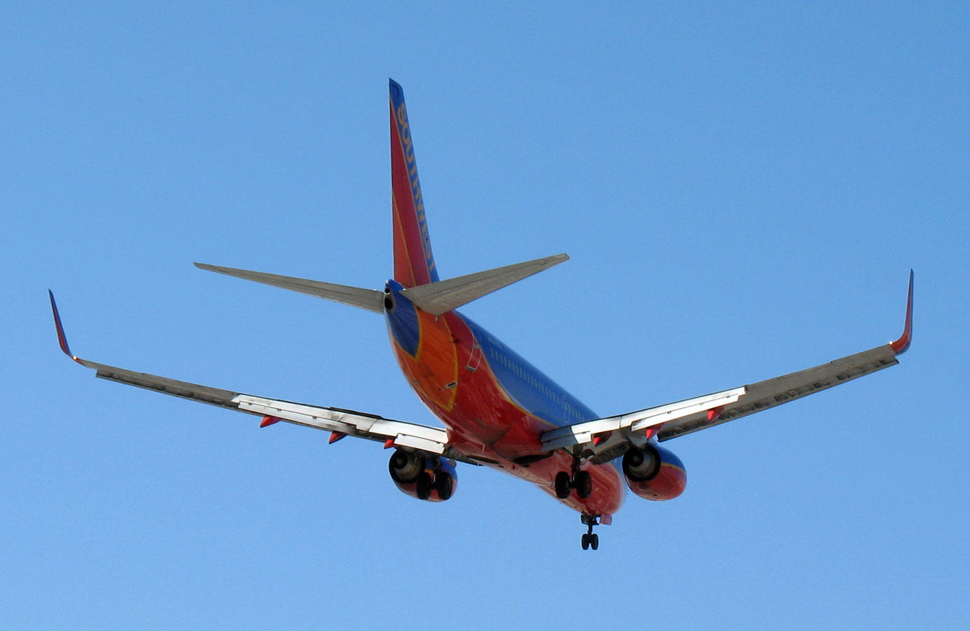 In Little Italy the airport's so close you're constantly being buzzed by jets -- every two minutes or so, and most of them are Southwest Airlines. We got so excited we were chasing after them with the cameras like 3rd-graders, but hardly any of the shots were worth keeping.